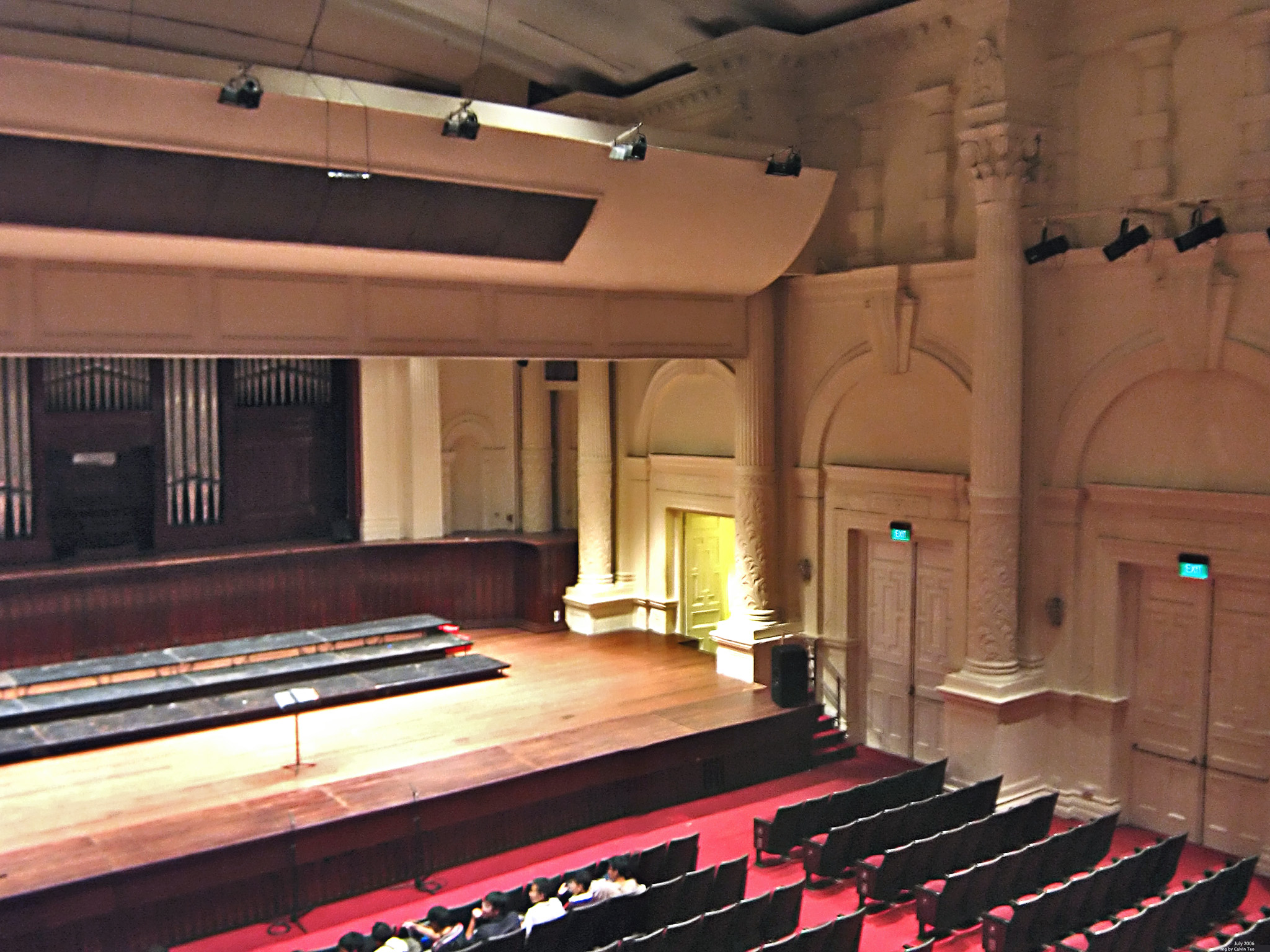 The interior of Victoria Concert Hall, viewed from the Circle Seats.